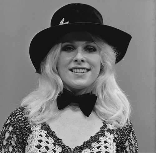 Bonnie St. Claire in AVRO's TopPop (Dutch television show) in 1974